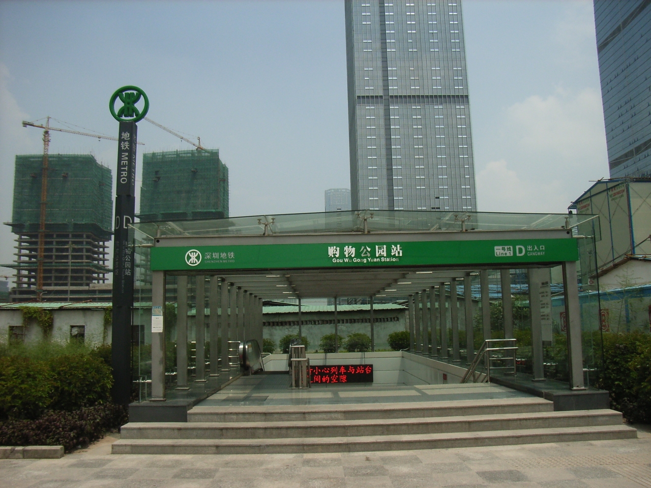 Shenzhen, China (Author is SAMZ).